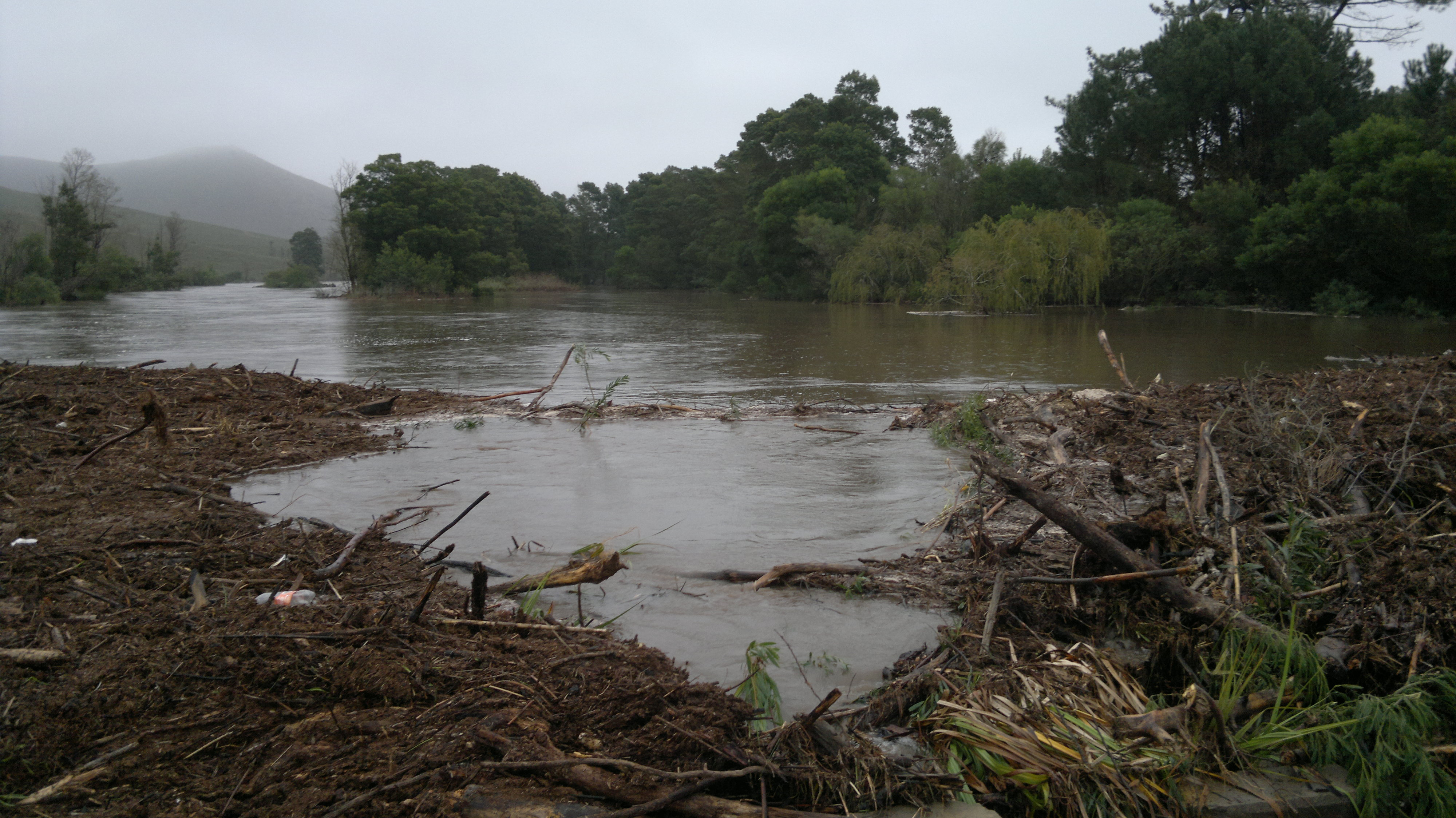 The Sonderend river during the floods in Greyton with lots of debris against the bridge